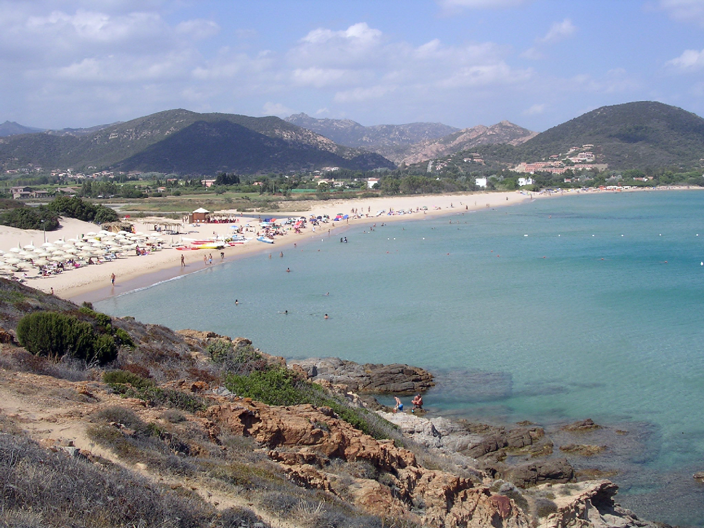 photo of Chia, province of Cagliari